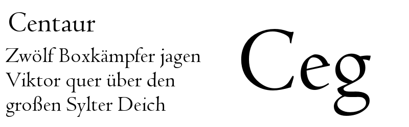 german pangram in typeface Centaur